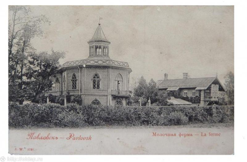 Pavlovsk (Russia), Pavlovsk Park.